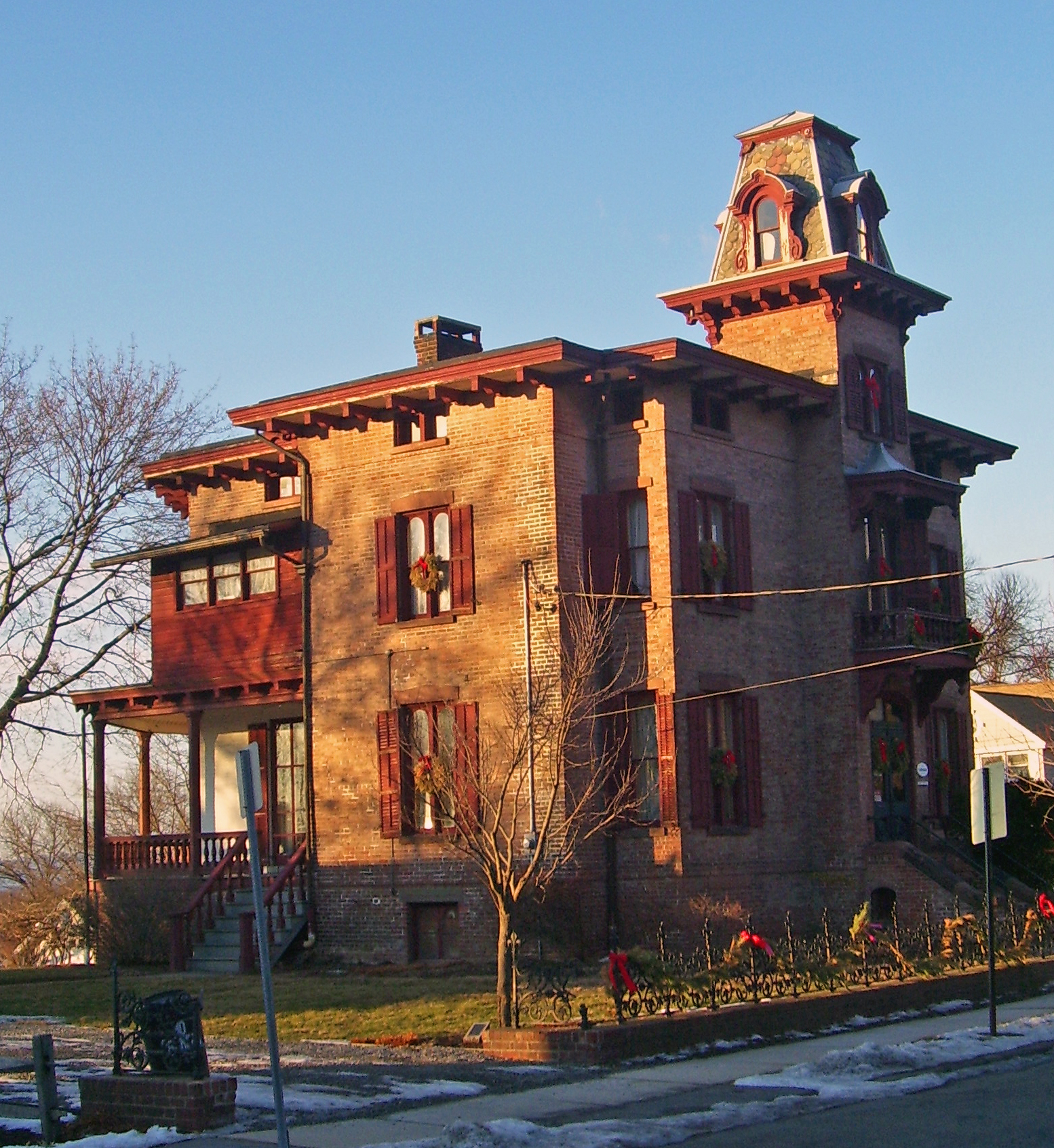 1 North Grove Street, Tarrytown, NY, USA, a contributing property to the North Grove Street Historic District